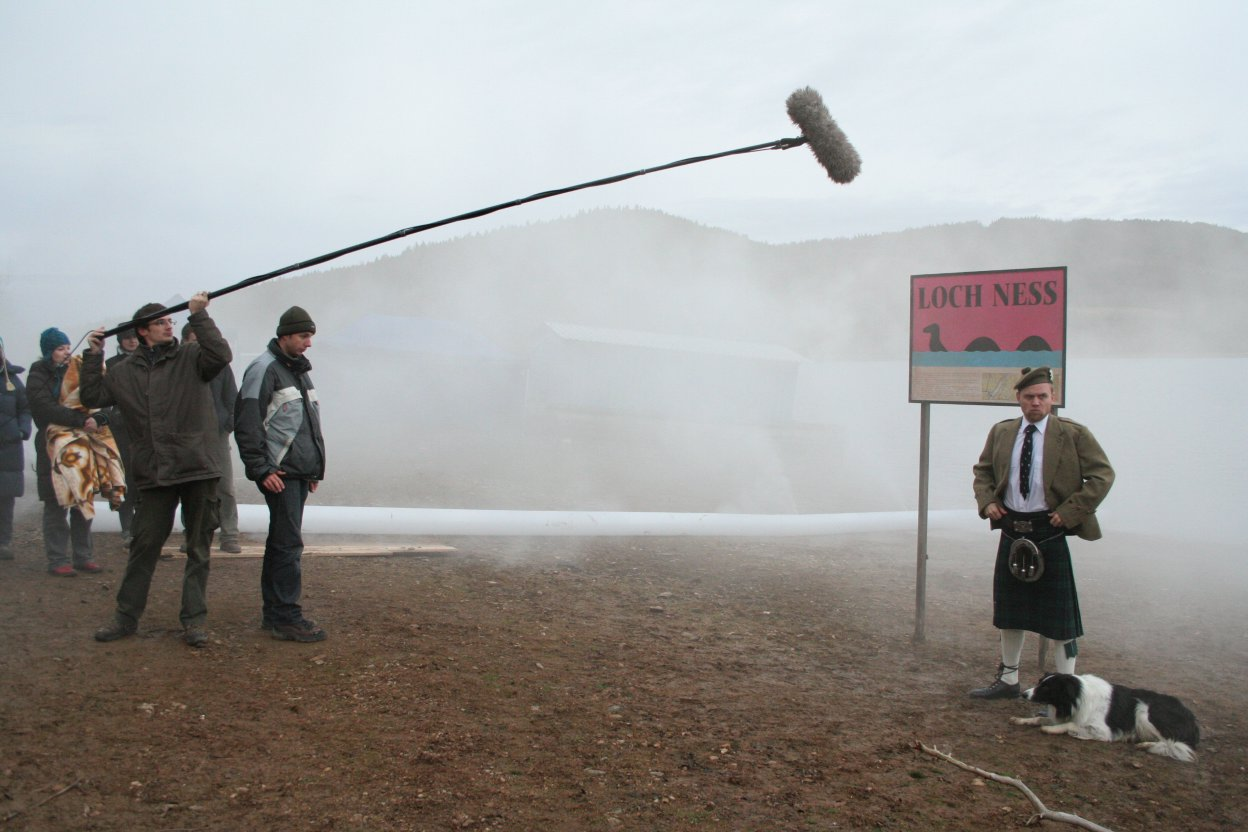 on set of T-mobile commerical